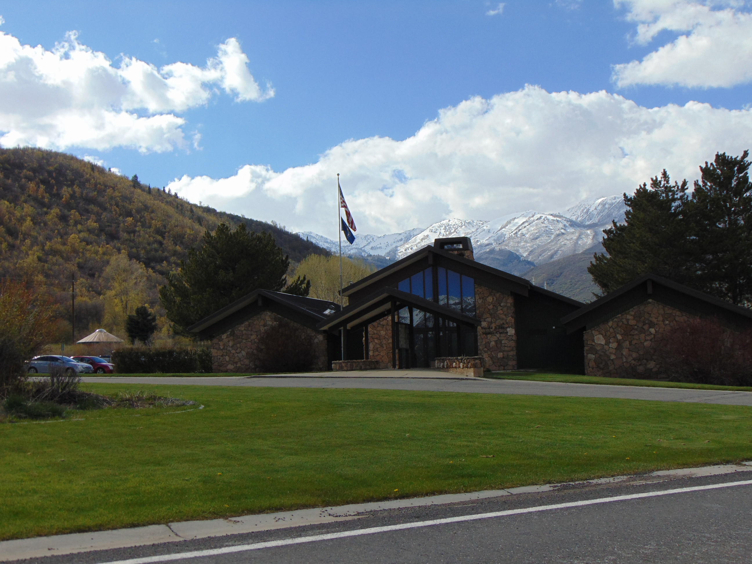 Looking northwest at the Wasatch Mountain State Park Visitors Center from Warm Springs Road (Utah State Route 222) in Wasatch Mountain State Park, April 2016. (The visitors center is just northwest of the junction of Utah State Route 222 and the former Utah State Route 220.)